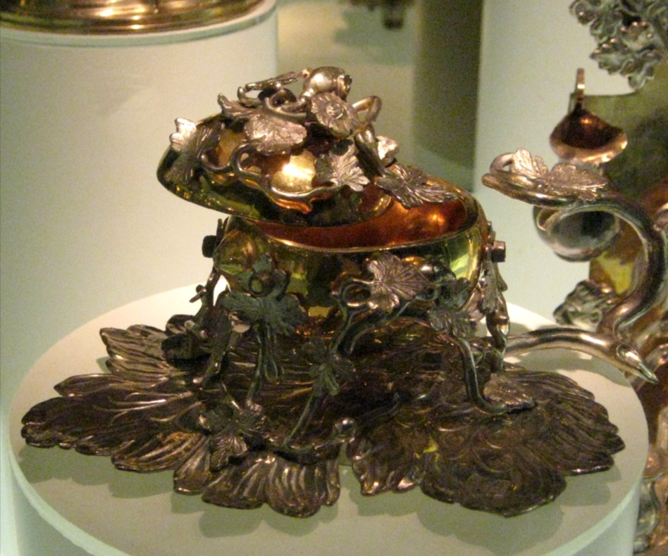 saucer for honey